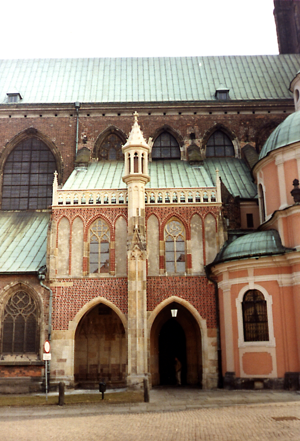 Cathedral church in Wrocław, Poland. Emperor's Gate.